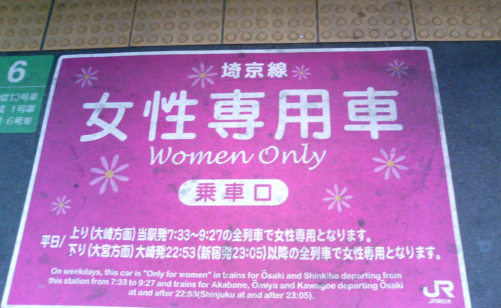 Train platform sign, indicating that this part of the train is for women only, to prevent sexual harassment. Shinjuku Station, Tokyo, Japan